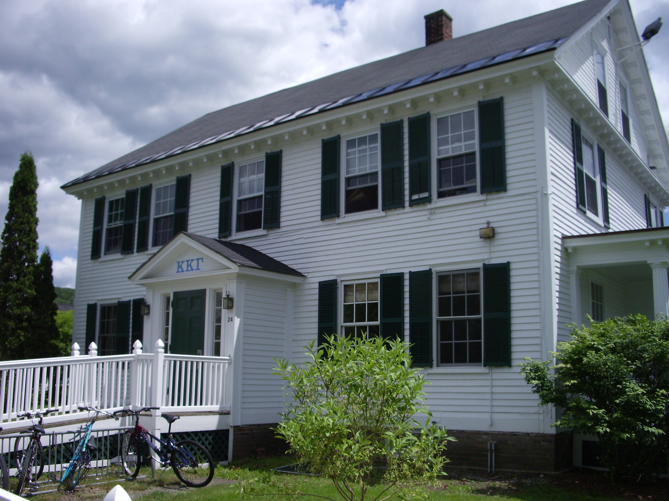 Photograph of Kappa Kappa Gamma at the campus of Dartmouth College in Hanover, New Hampshire.